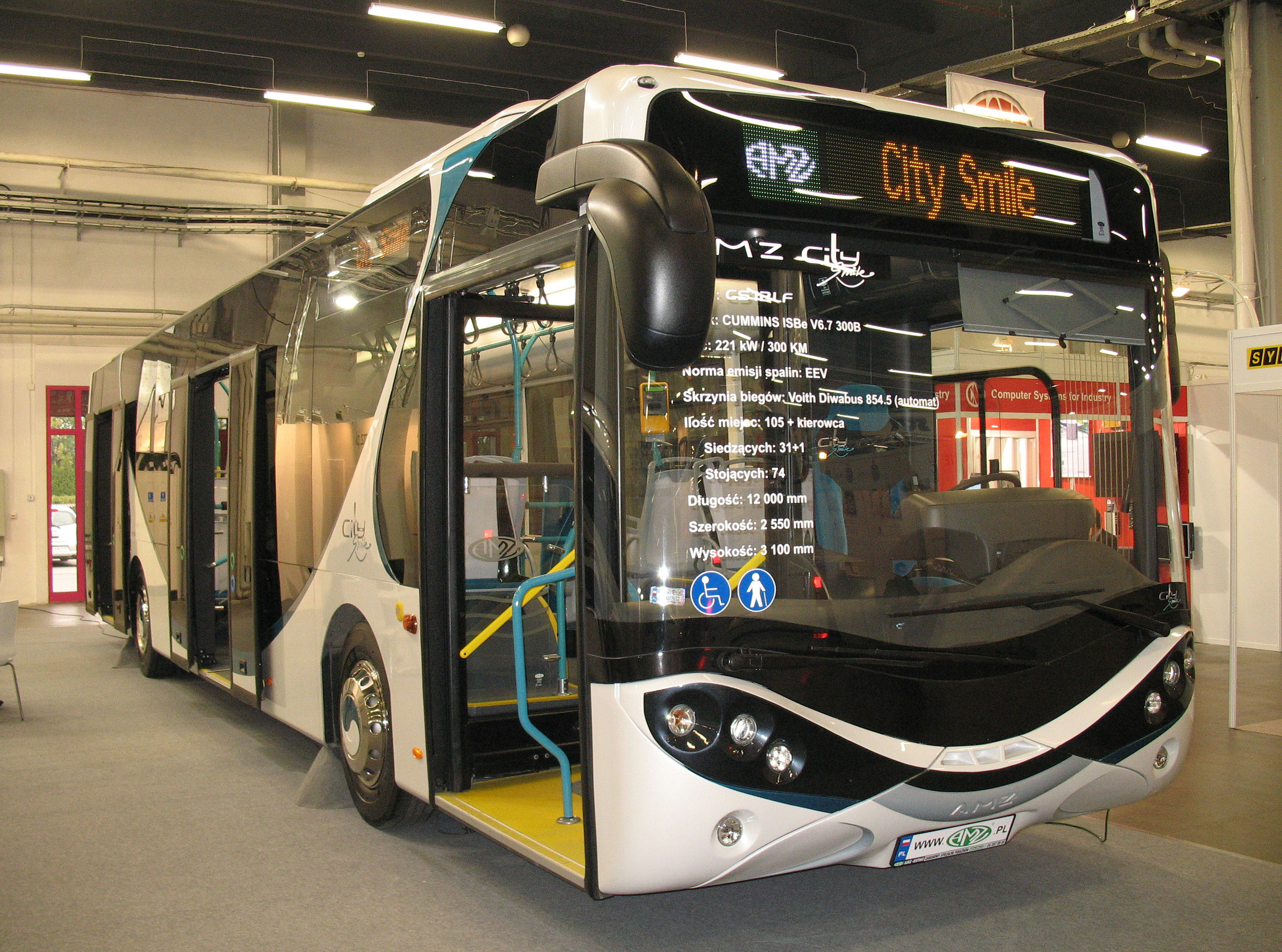 AMZ City Smile CS12LF bus prototype in Kielce, Poland. Built 2011. Transexpo 2011.